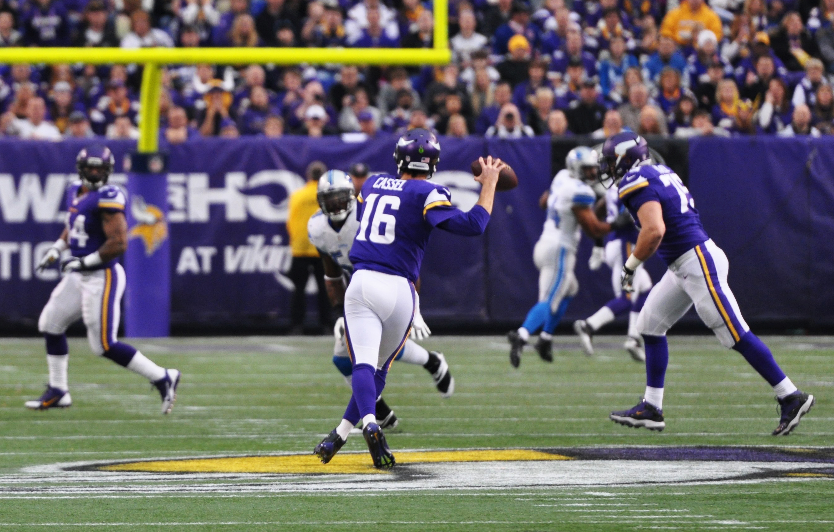 Minnesota Vikings QB Matt Cassel during the last 2013 season match